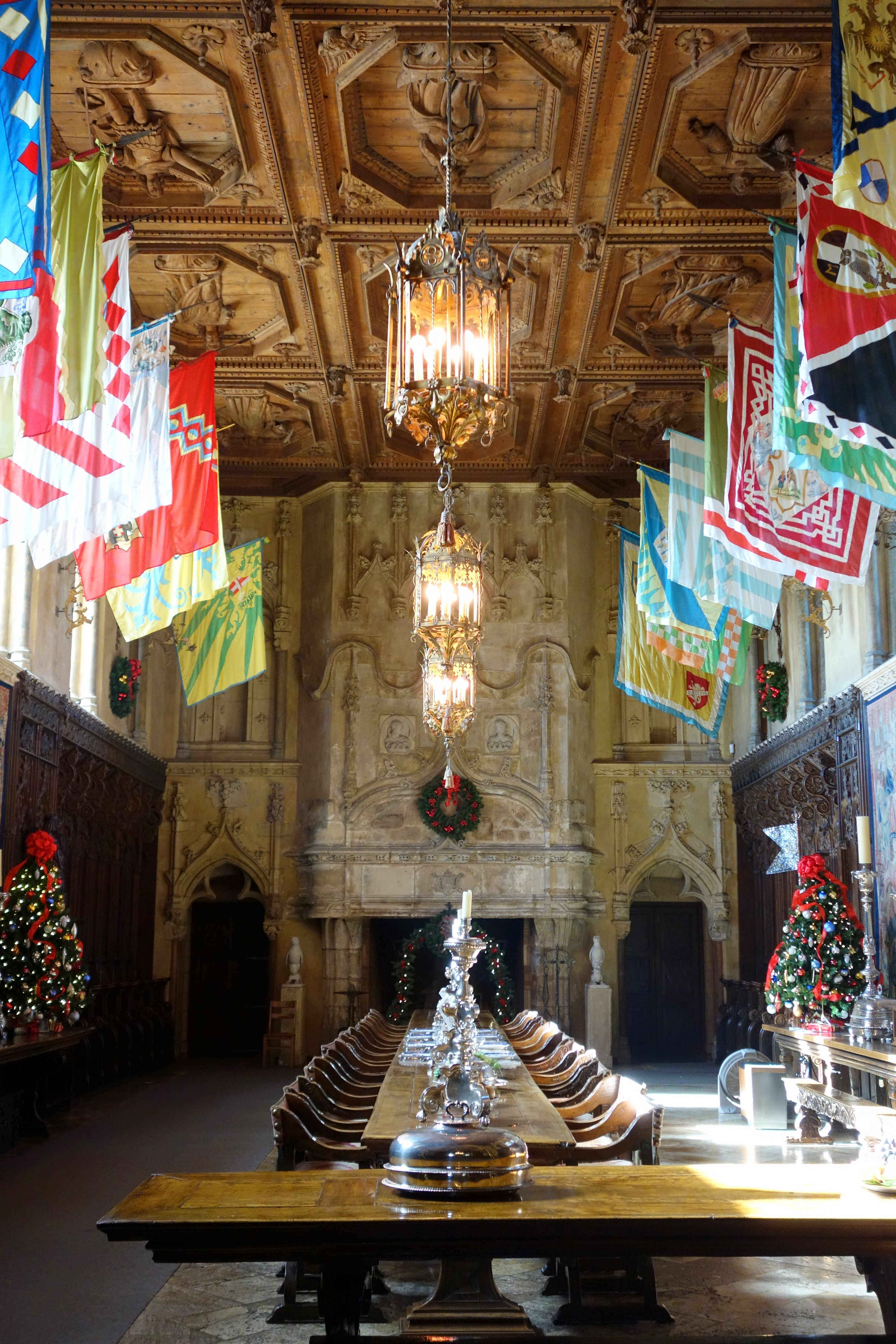 Interior view of Hearst Castle, San Simeon, California, USA. Photograph was permitted without restriction in and around the castle. All artwork is old enough so that it is in the public domain.